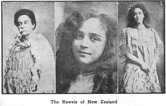 The Rawei family (Frances Rawei, Eva or Piwa, and Hiné Taimoa), from a 1913 publication.